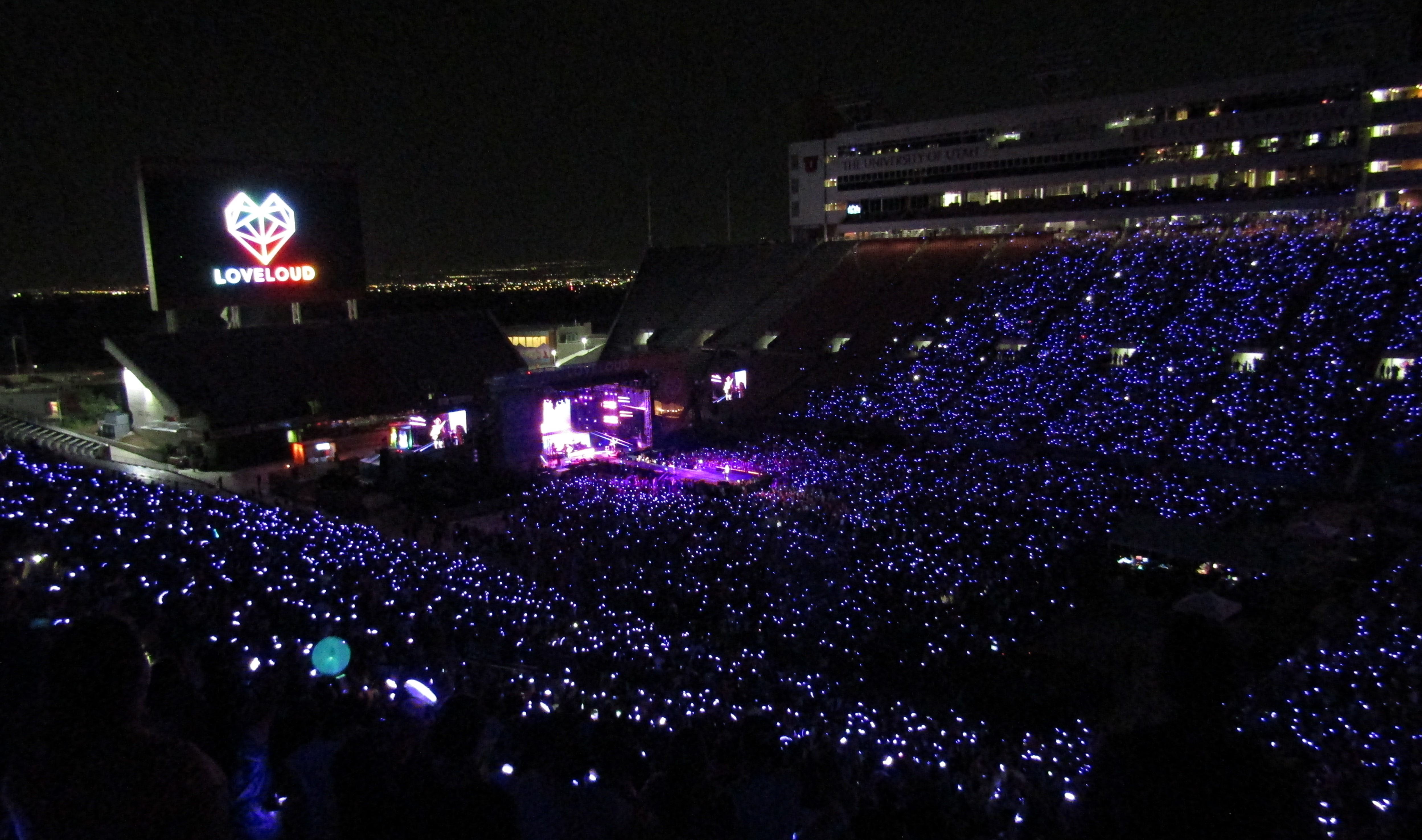 Imagine Dragons performing at LoveLoud 2018.